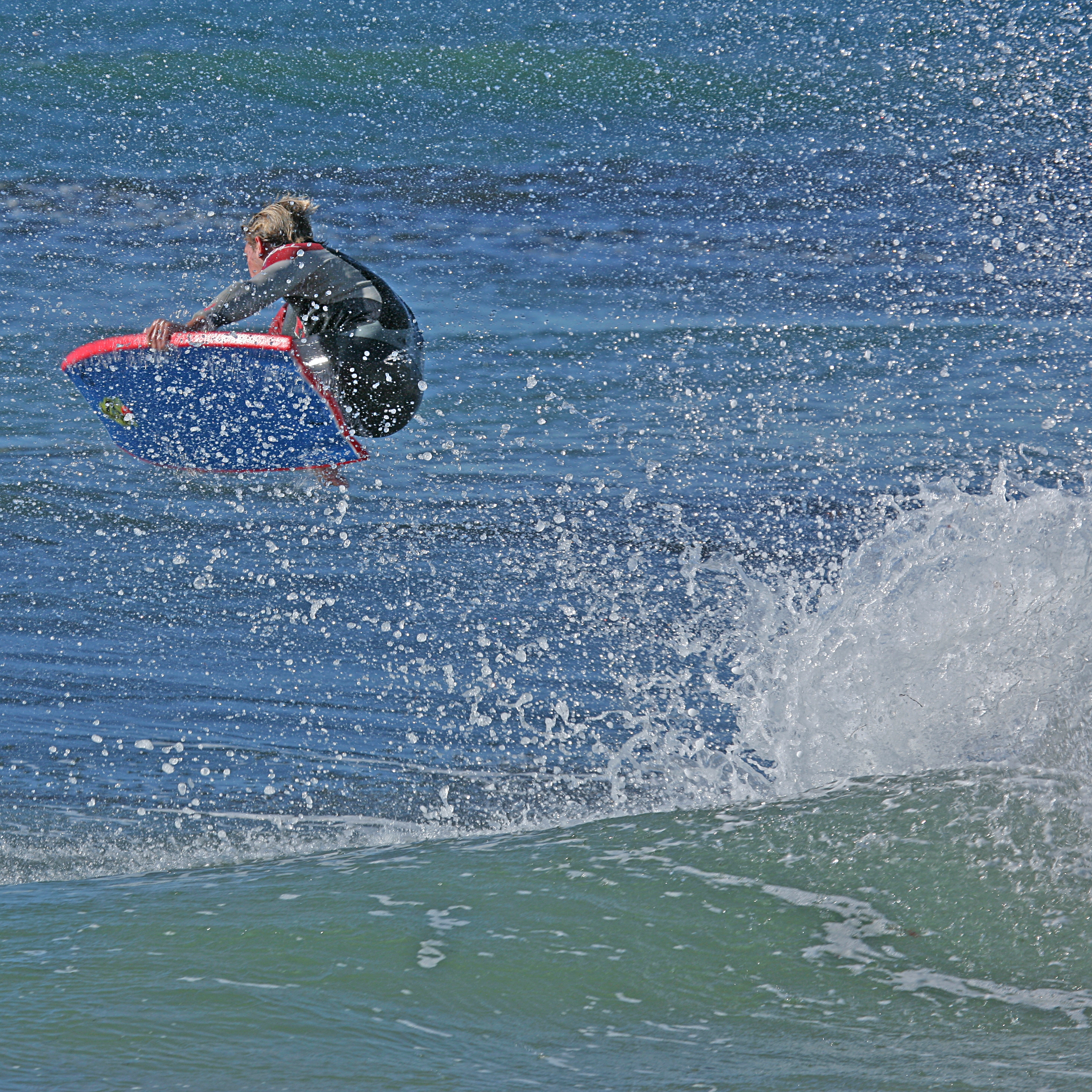 Bodyboarding in San Diego, California, November 2007